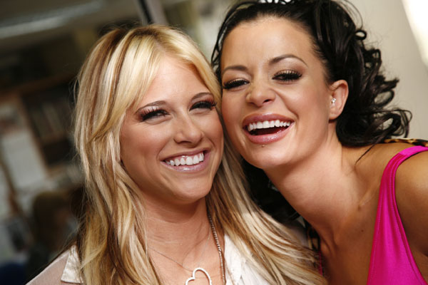 Kelly Kelly and Candice Michelle at 20 Minutos